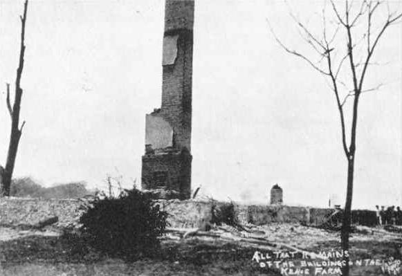 The remains of Andrew and Nellie Kehoe's house after the explosion.